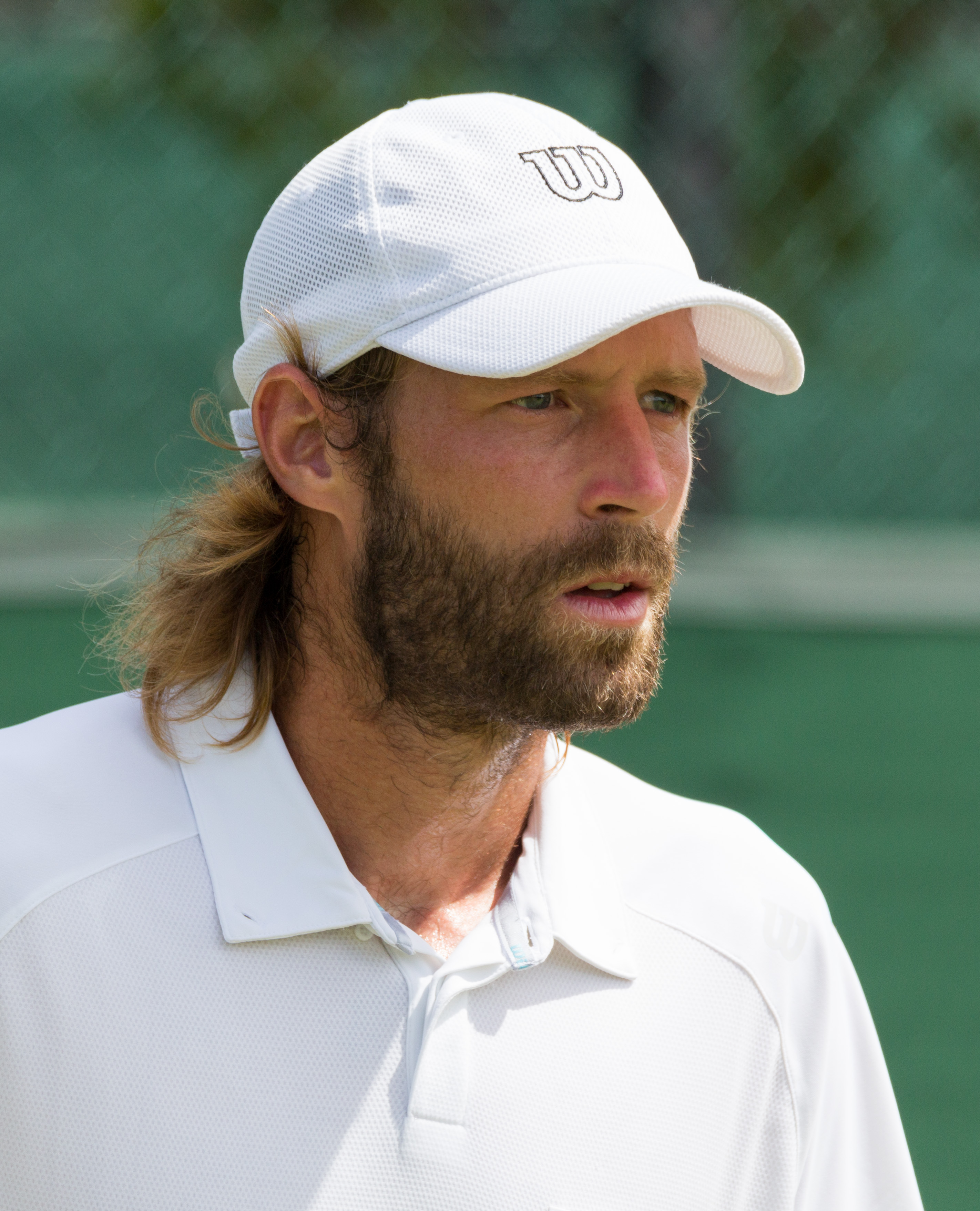 Stéphane Robert competing in the third round of the 2015 Wimbledon Qualifying Tournament at the Bank of England Sports Grounds in Roehampton, England. The winners of three rounds of competition qualify for the main draw of Wimbledon the following week.